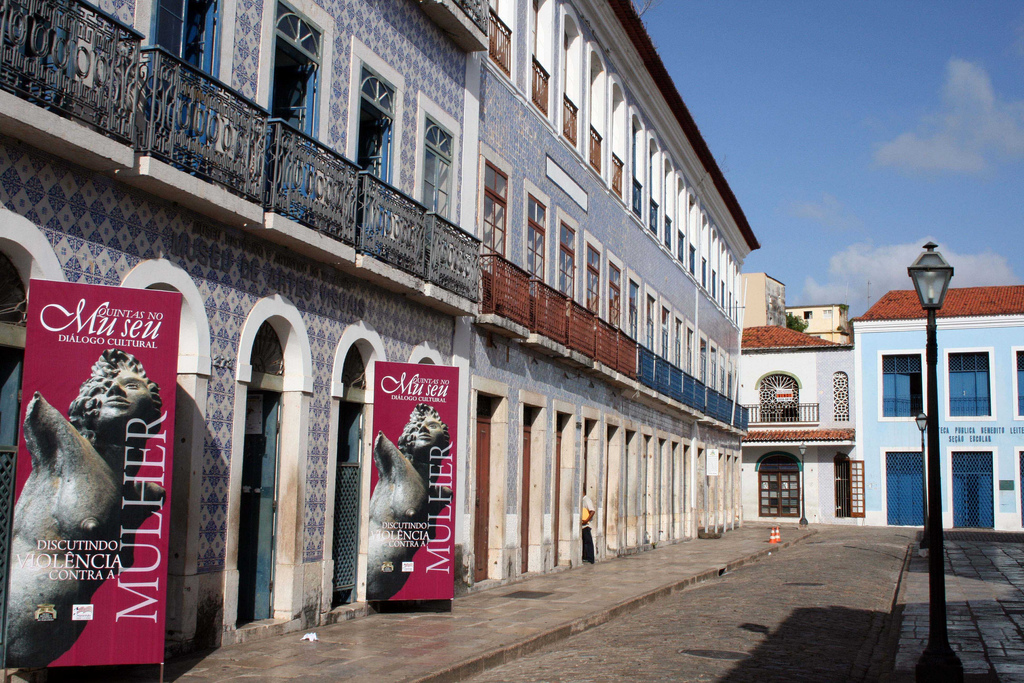 Street in São Luís, Brazil